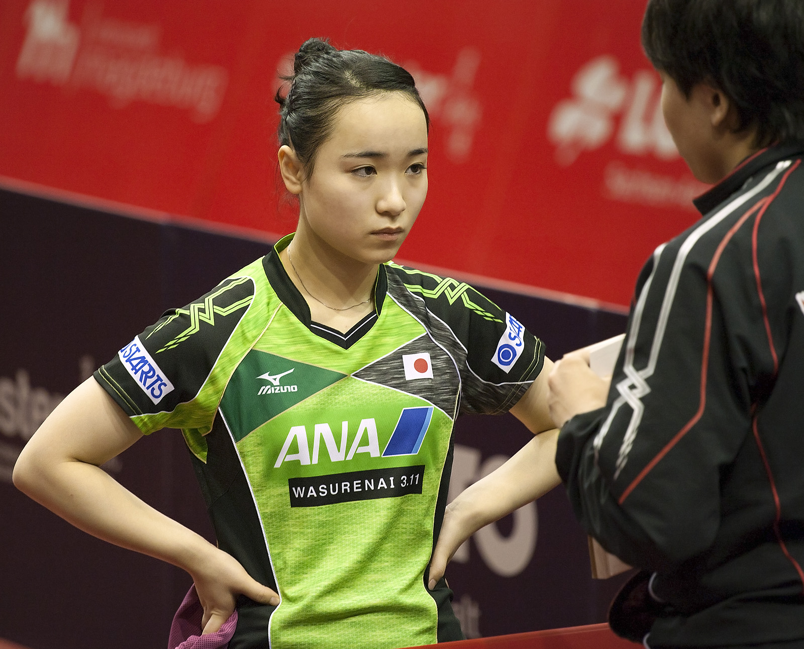 ITTF World Tour 2017 German Open, Magdeburg, Germany, 7 Nov 2017 - 12 Nov 2017, Mima Ito